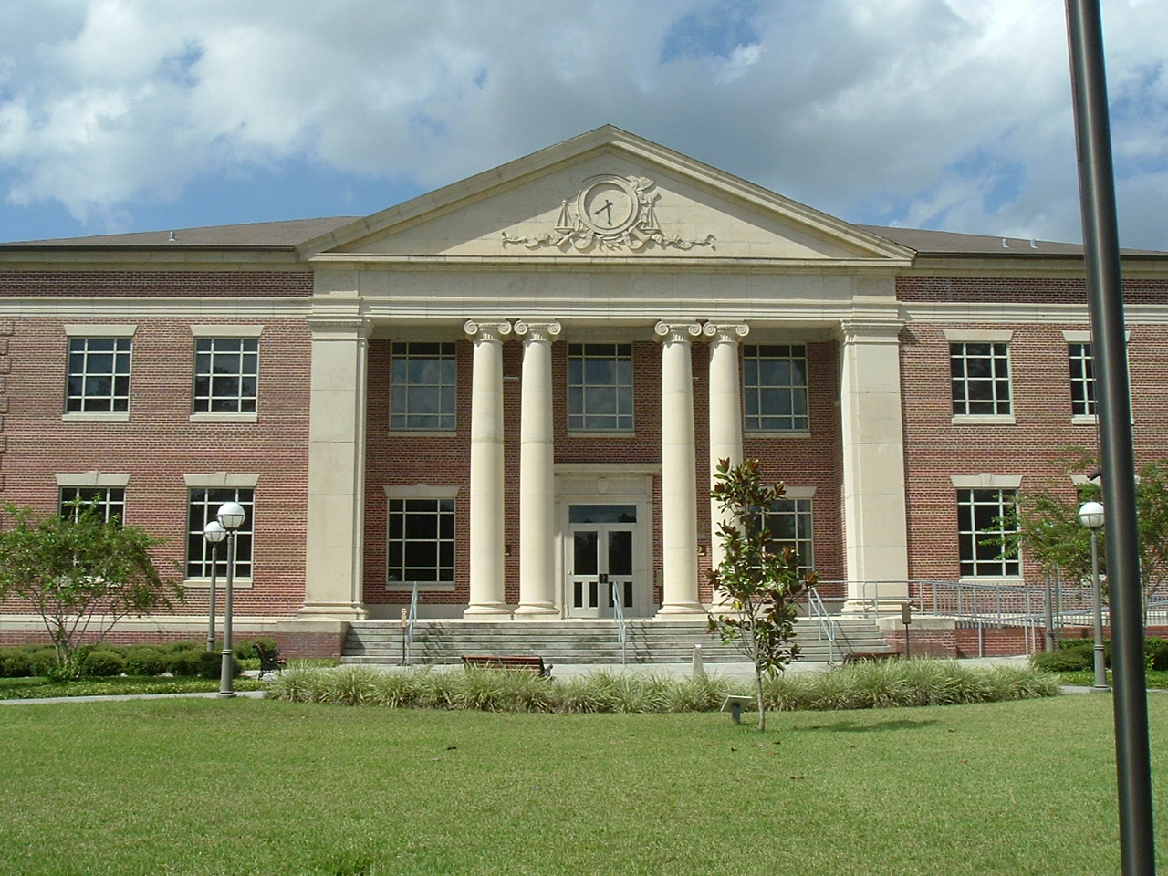 Baker County Courthouse in Macclenny Category:Baker County Category:County courthouses in Florida §Summary Baker County Courthouse in Macclenny